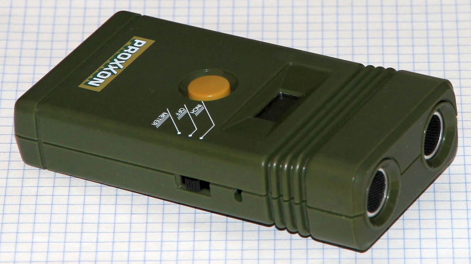 Proxxon ultrasonic distance meter. Unknown model name. The main (and only) IC in this sample was made in 1987 week 15.